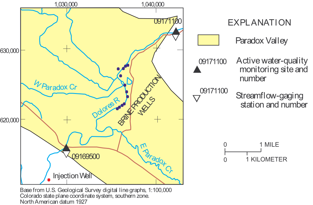 Locations of U.S. Geological Survey gaging stations and Paradox Valley Unit brine-withdrawal wells and injection well